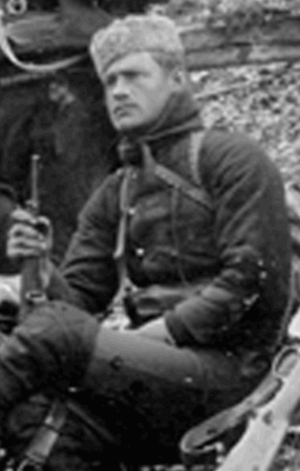 IMARO member Todor Hristov.